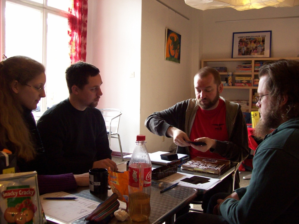 Role playing gamers at the Burg-Con in Berlin. System Engel, played wirth cards instead of dice.